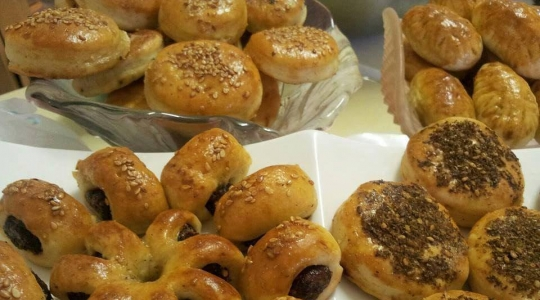 Iraqi Kleicha